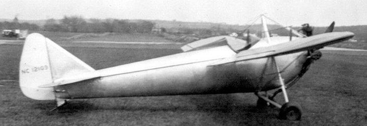 Buhl Pup owned by Joe J. Pawlicki of New London, CT. Family photo by Theodore Lowe probably taken in CT or NY circa 1936.